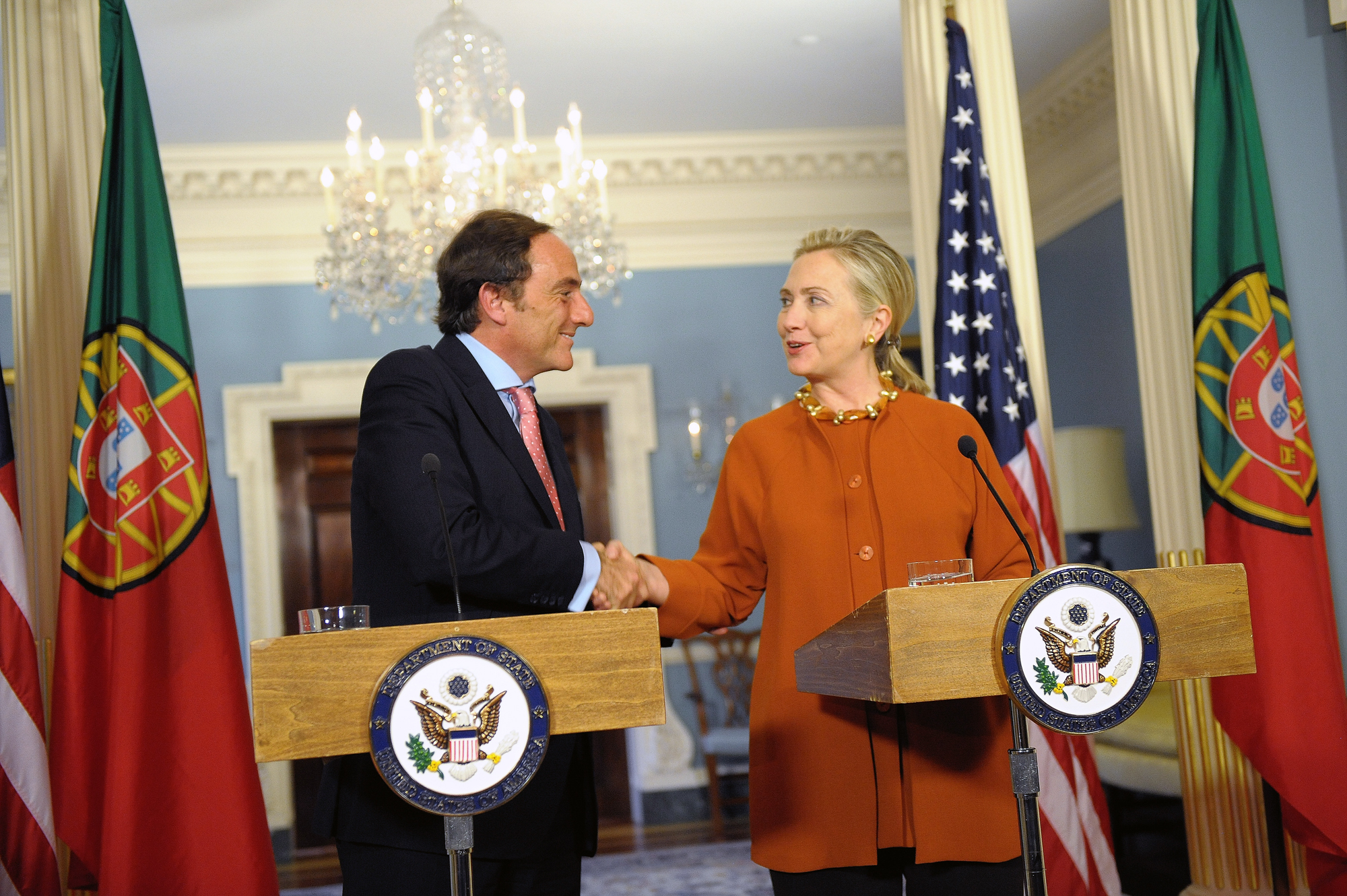 U.S. Secretary of State Hillary Rodham Clinton shakes hands with Portuguese Foreign Minister Paulo Portas after their joint press conference at the U.S. Department of State in Washington, D.C., in September 27, 2011. [State Department photo/ Public Domain]